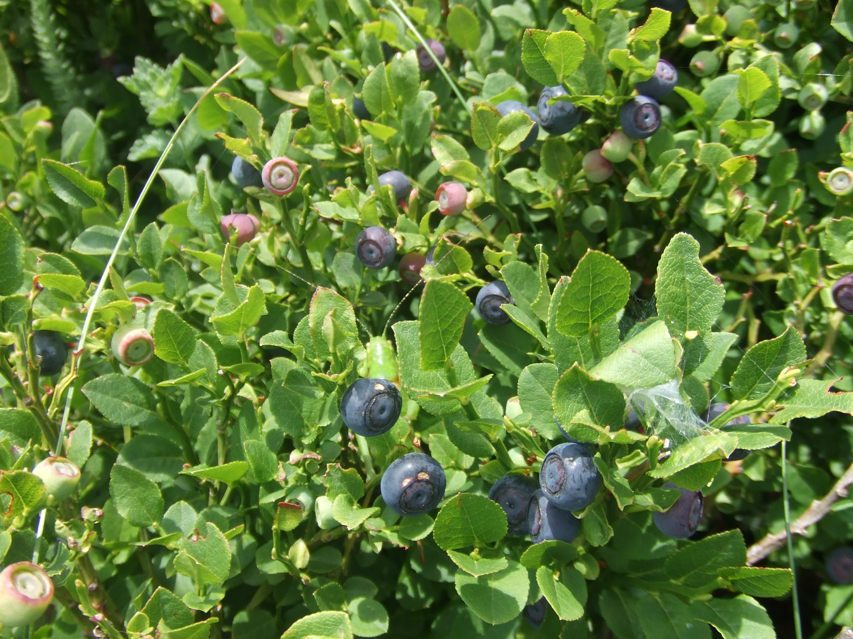 Borovinki.jpg